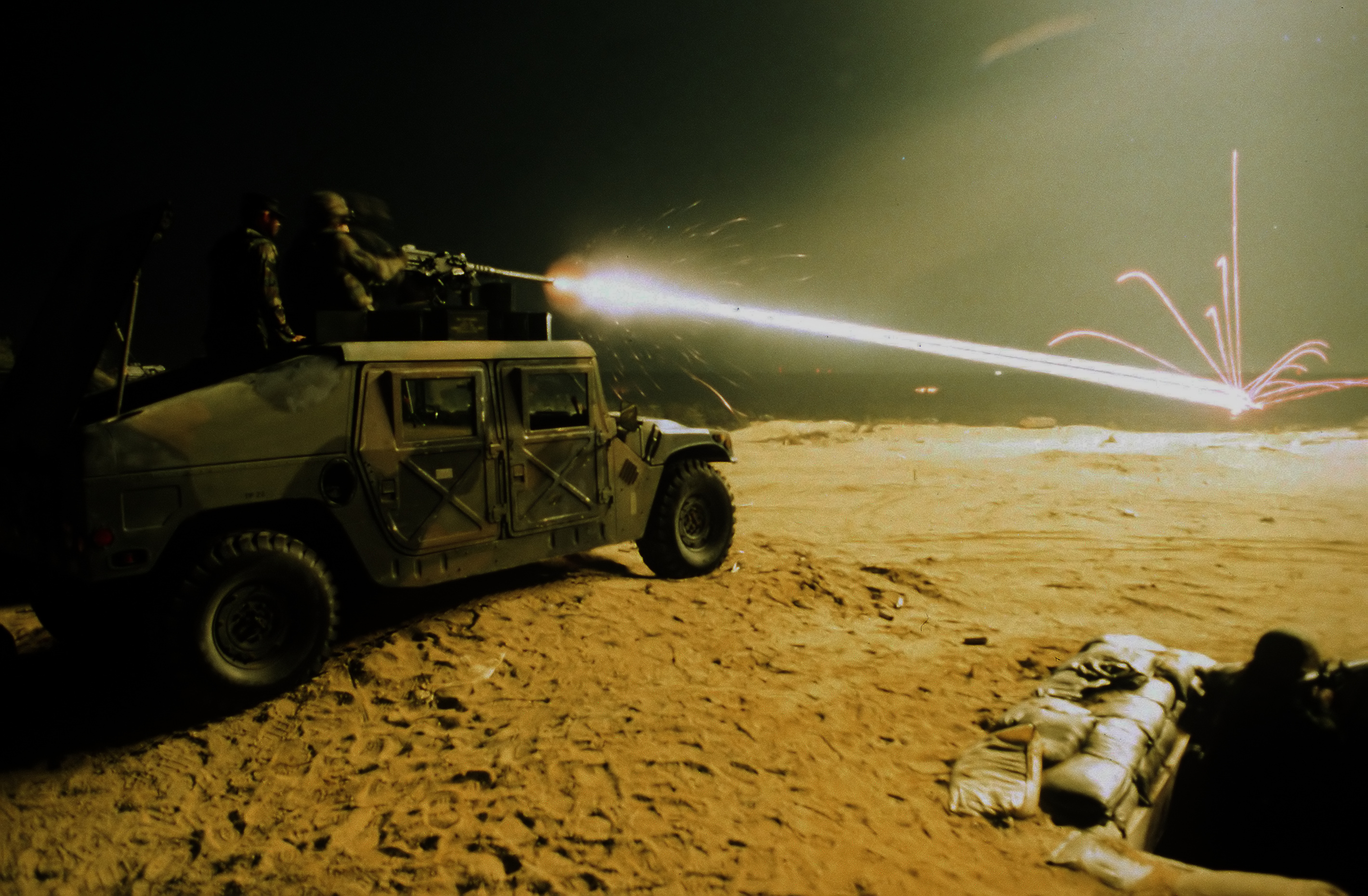 Tracer rounds ricochet off of a tank as security police heavy weapons specialists fire a High-Mobility Multipurpose Wheeled Vehicle (HMMWV) mounted .50 caliber machine gun at the Air Mobility Warfare Center. Location: FORT DIX, NEW JERSEY (NJ) UNITED STATES OF AMERICA (USA). Published in Airman Magazine July 1996. Exact Date Shot Unknown.